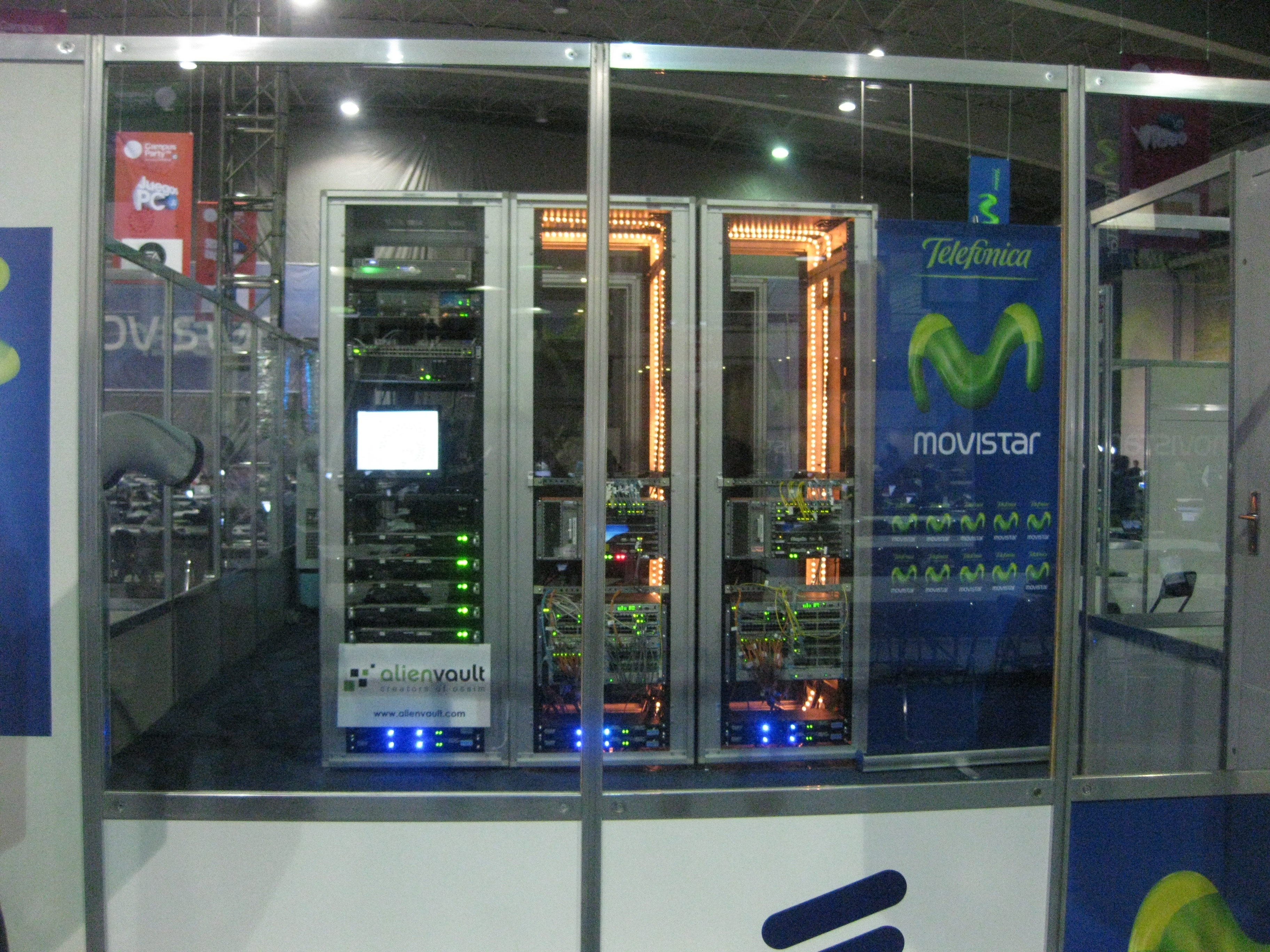 Ovni (Control Center) at Campus Party México 2009 (CPMX1)